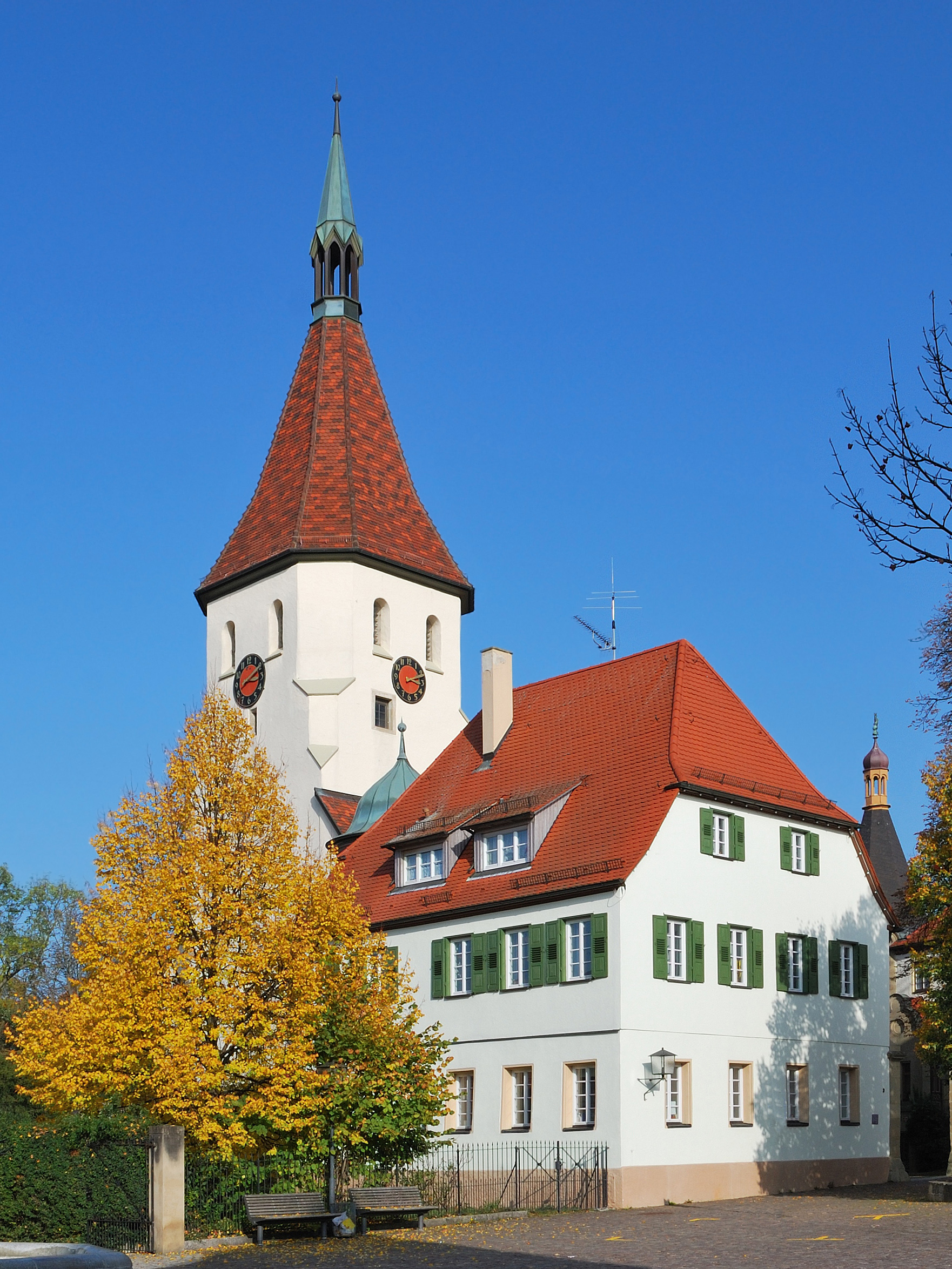 The 'Old School' in Hemmingen in the German Federal State Baden-Württemberg. Behind is seen the tower of the protestant Saint Lawrence Church.